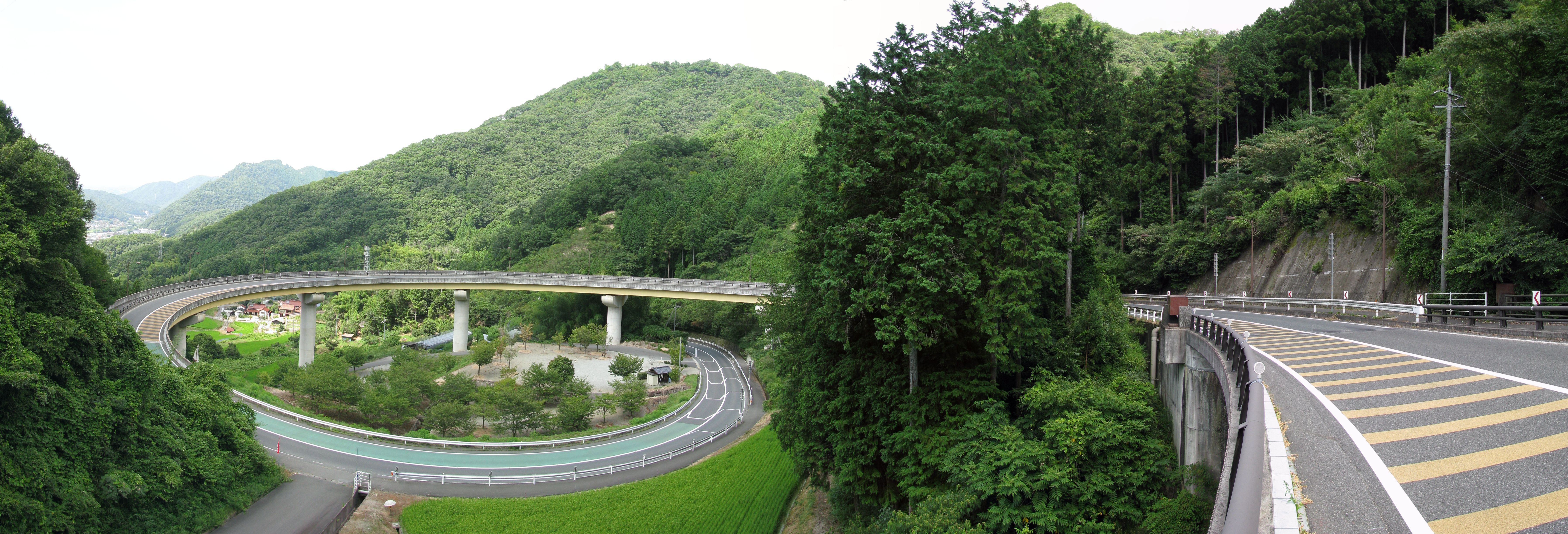 The Atago loop-bridge of Japan National Route 484. This place is Takahashi, Okayama, Japan.